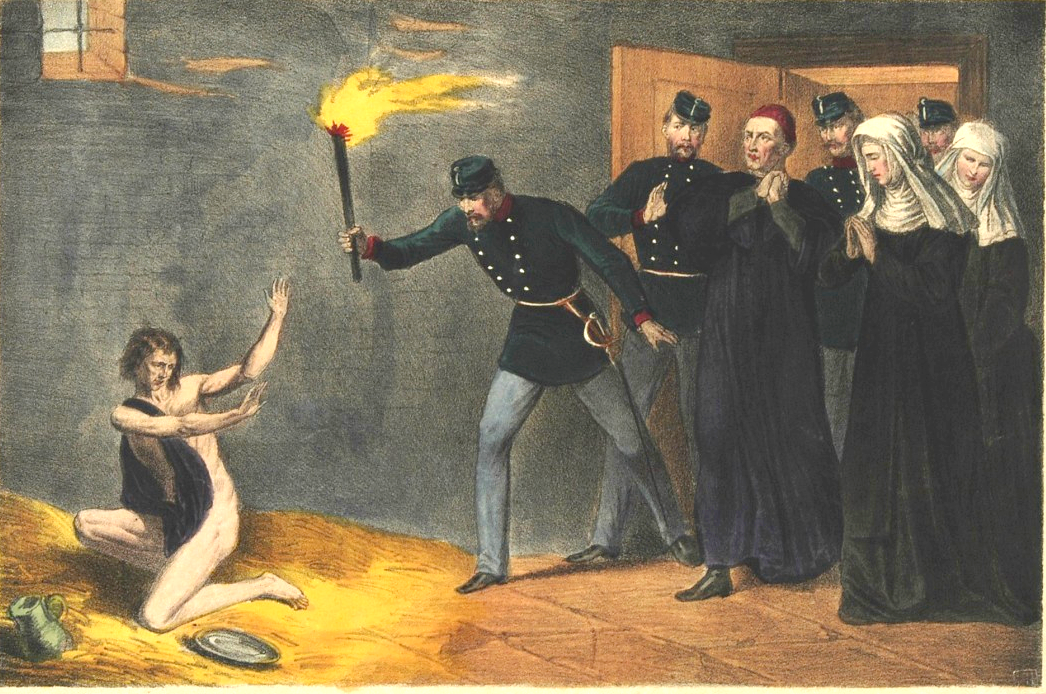 Discovery and Liberation of Barbara Ubryk in the monastery of the Sisters of Discalced Carmelites in Kraków. (21. July 1869)